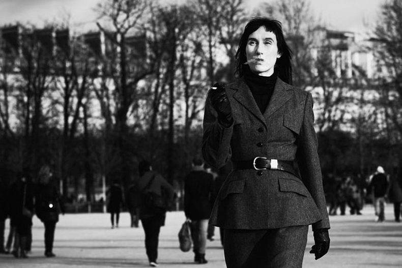 Mika'Ela Fisher Die Tapferen Haende im Chaos der Zeit